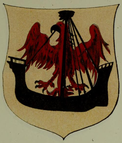 A nineteenth-century facsimile of the coat of arms of "The lord of ye Ilis" that appears in Sir David Lindsay's Armorial. The armorial itself dates to the early sixteenth century.